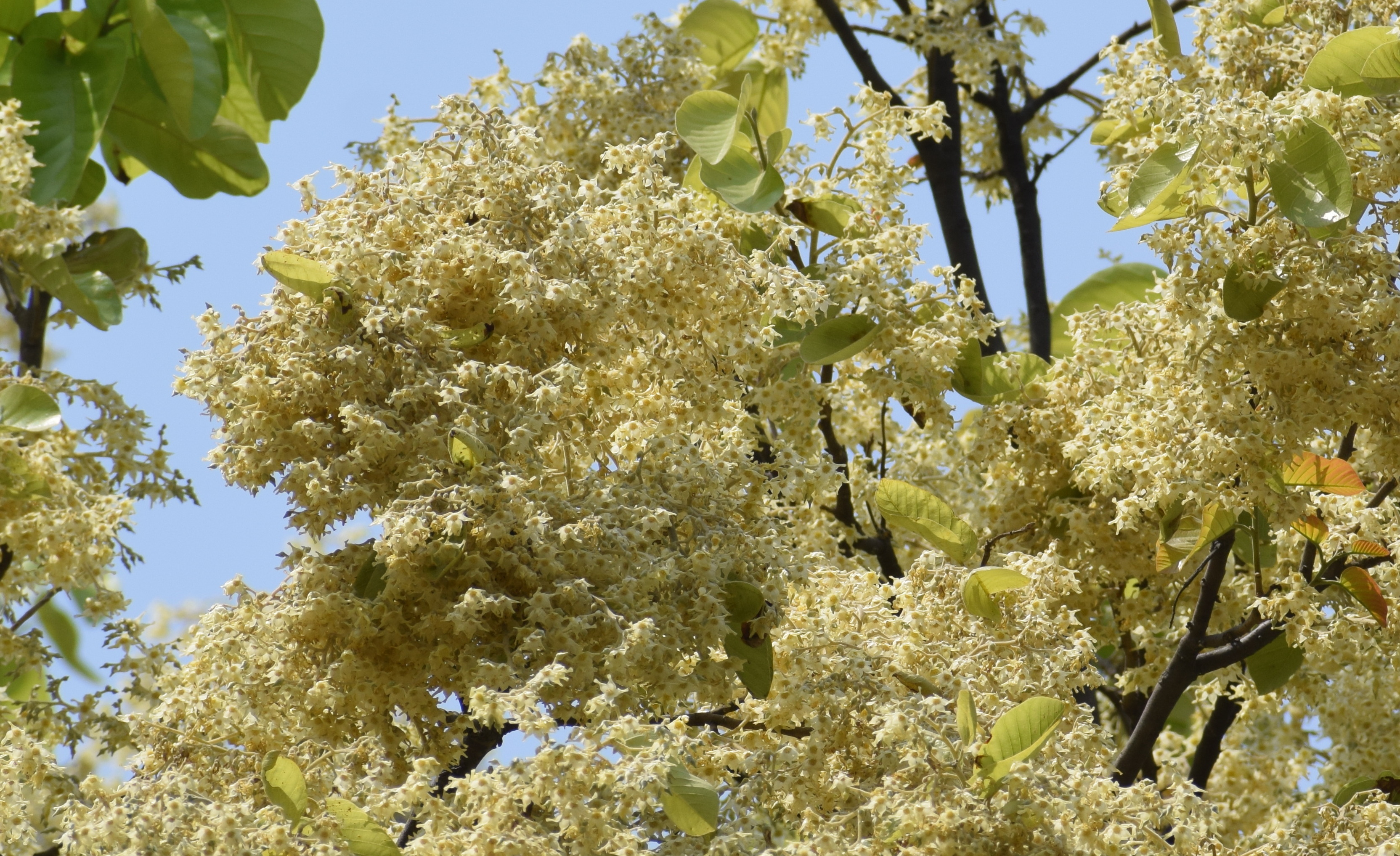 In full bloom